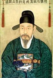 Portrait of Prime Minister Hwang Hui (황희) of the Joseon Dynasty (1363-1452)